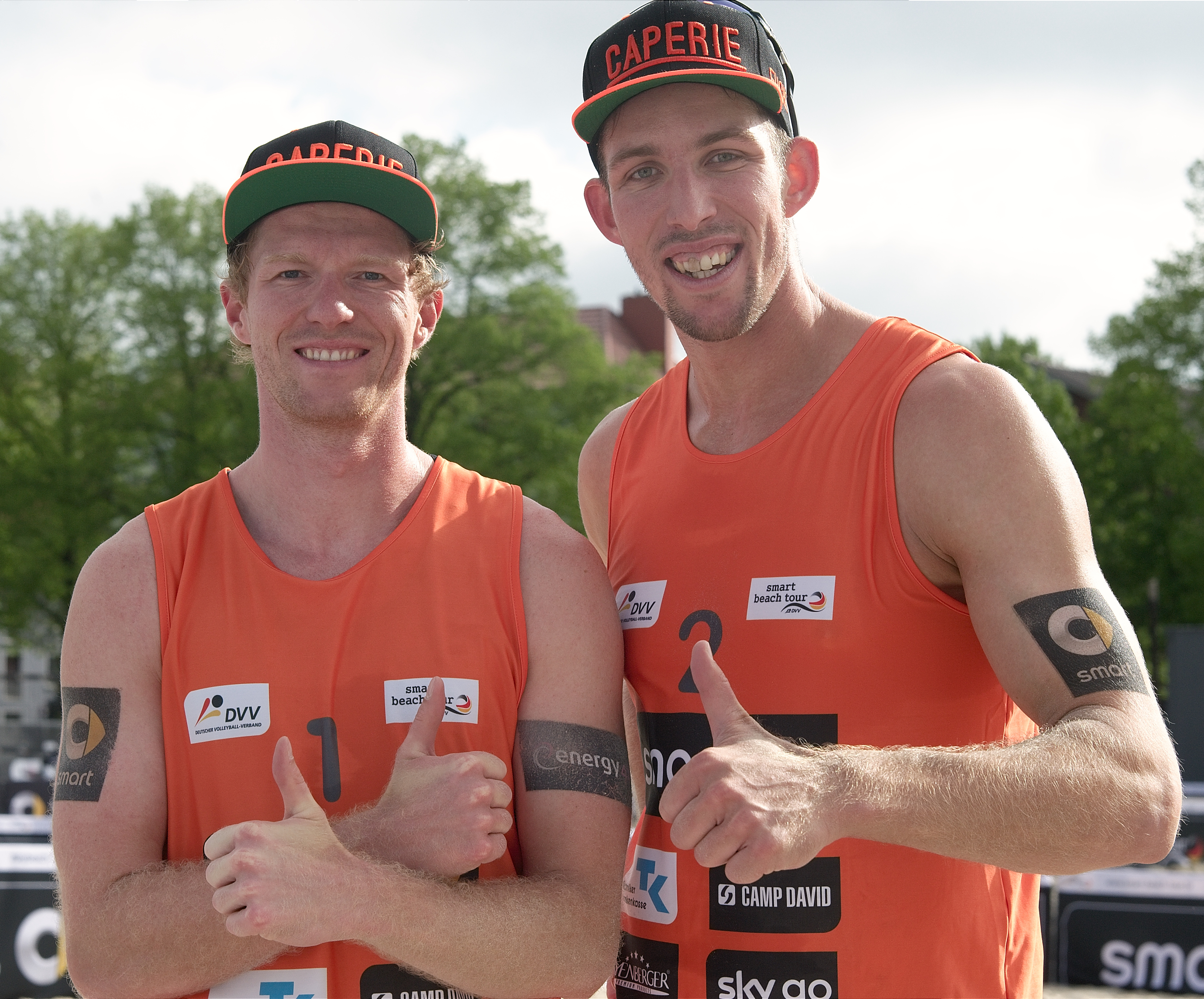 The German beach volleyball players Thomas Kaczmarek (left) und Sebastian Fuchs (right) at the Smart Beach Tour tournament in Münster 2015.